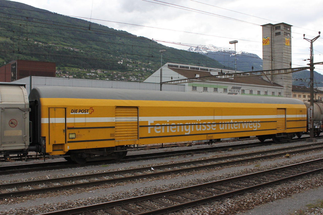 Postal rail van Z 50 85 00-73 599-0 CH-POST (formerly SNCF/La Poste) seen at Sion.